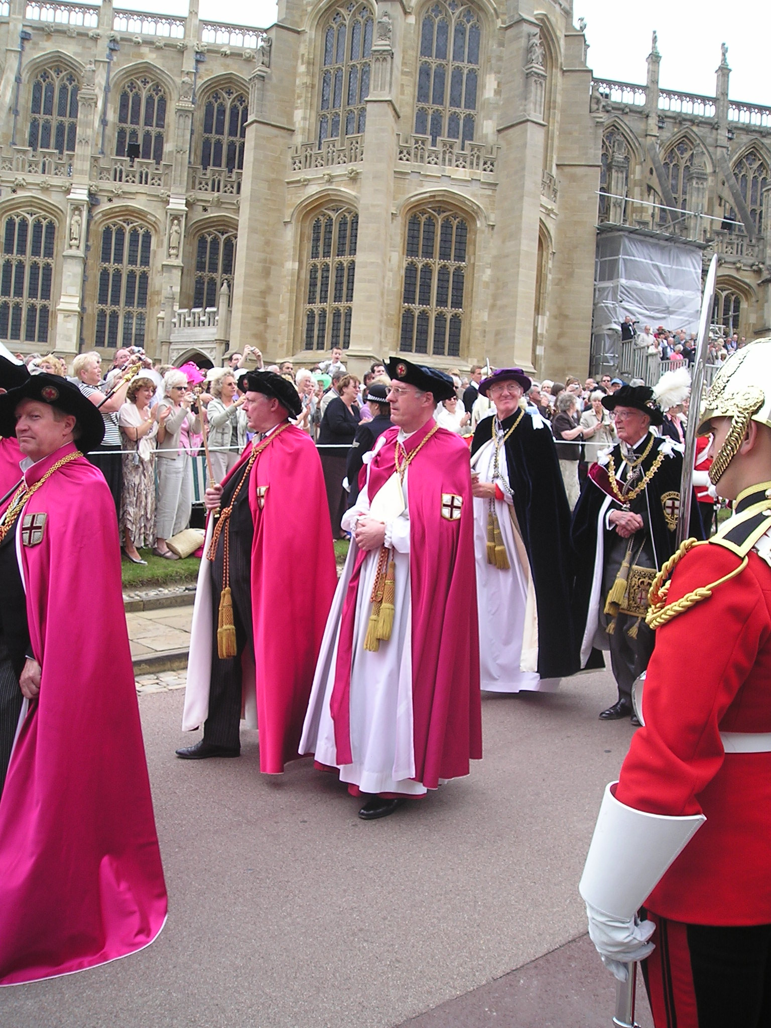 Officers of the Most Noble Order of the Garter, in procession to St George's Chapel, Windsor Castle for the annual service of the Order of the Garter. L-R: Secretary (barely visible), Gentleman Usher of the Black Rod, Garter Principal King of Arms, Register, Prelate, Chancellor